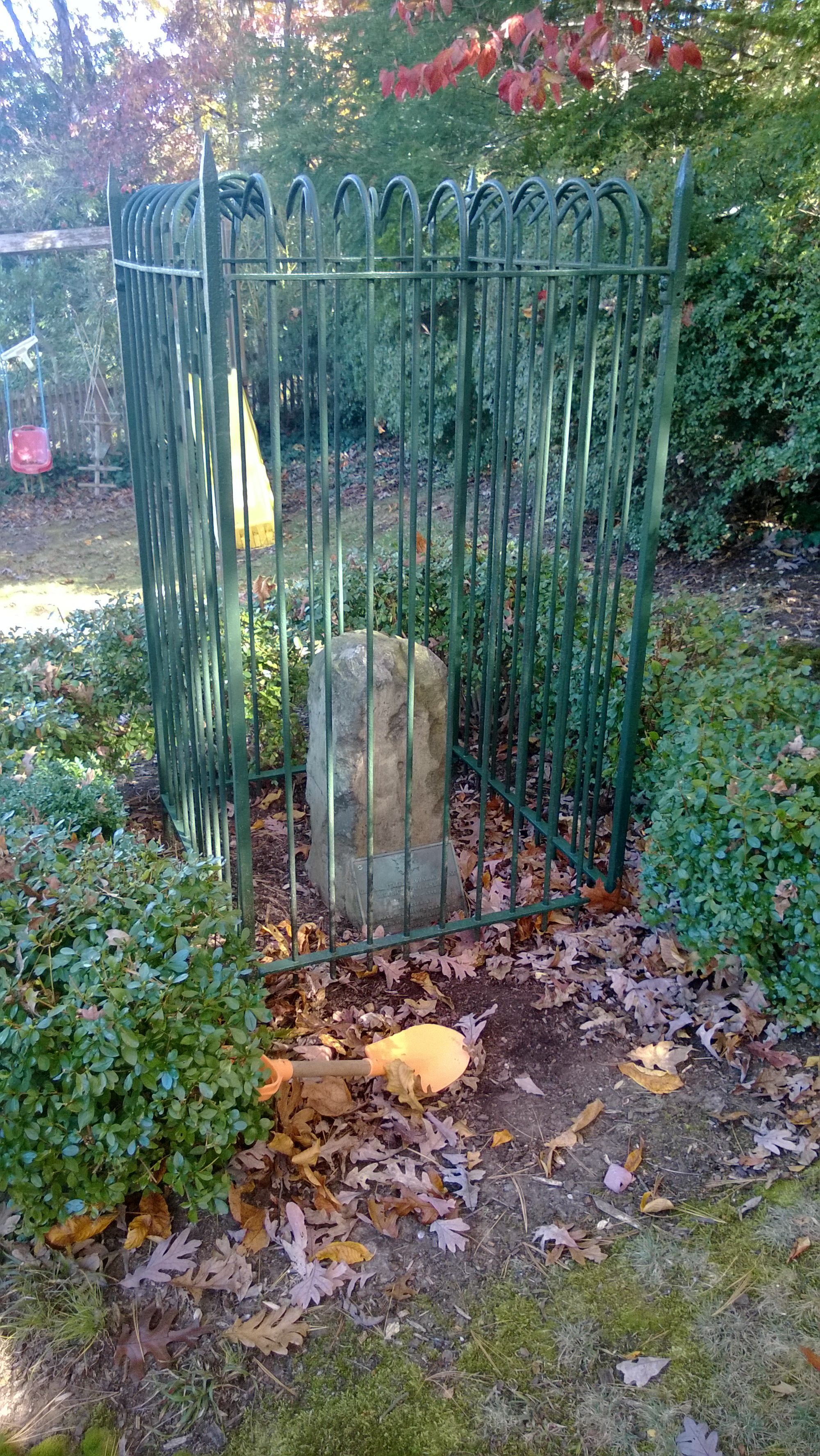 Northwest No. 3 Boundary Marker of the Original District of Columbia.